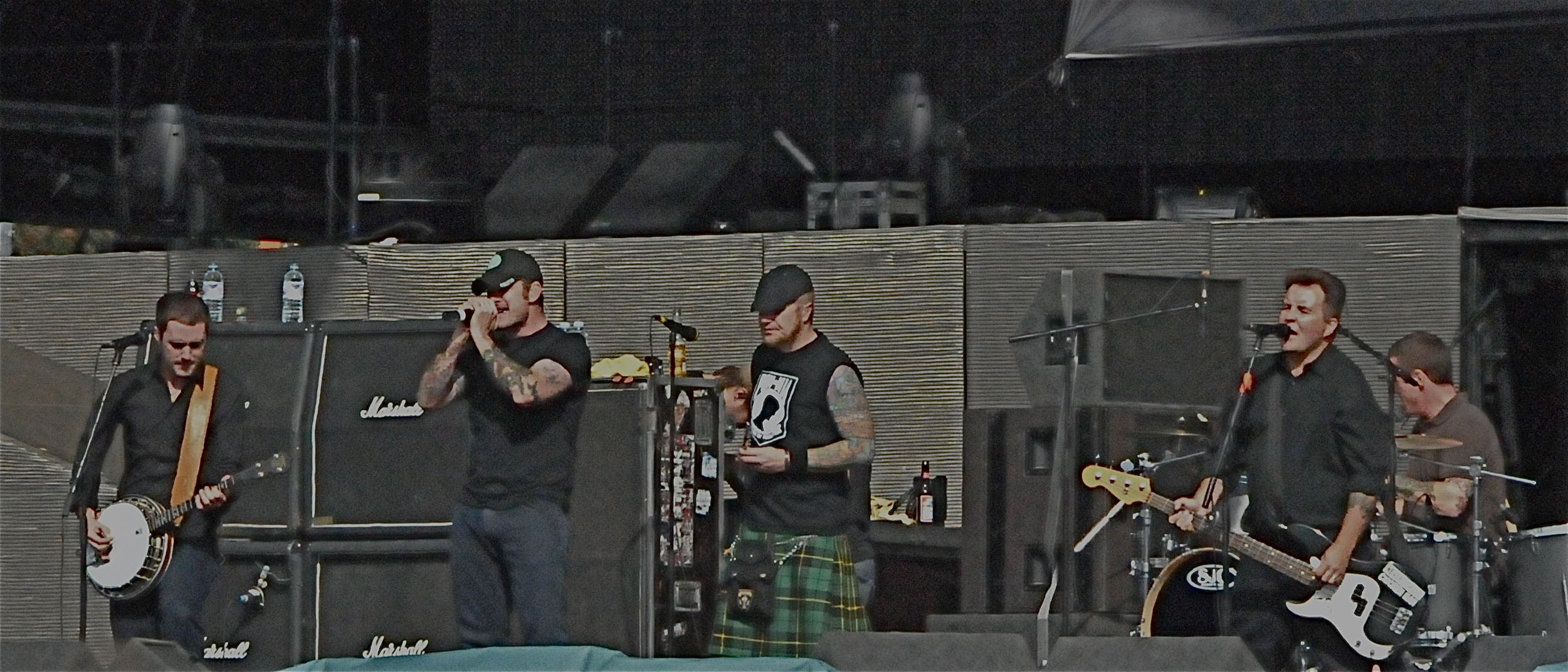 Dropkick Murphys live in the Reading Festival 2008